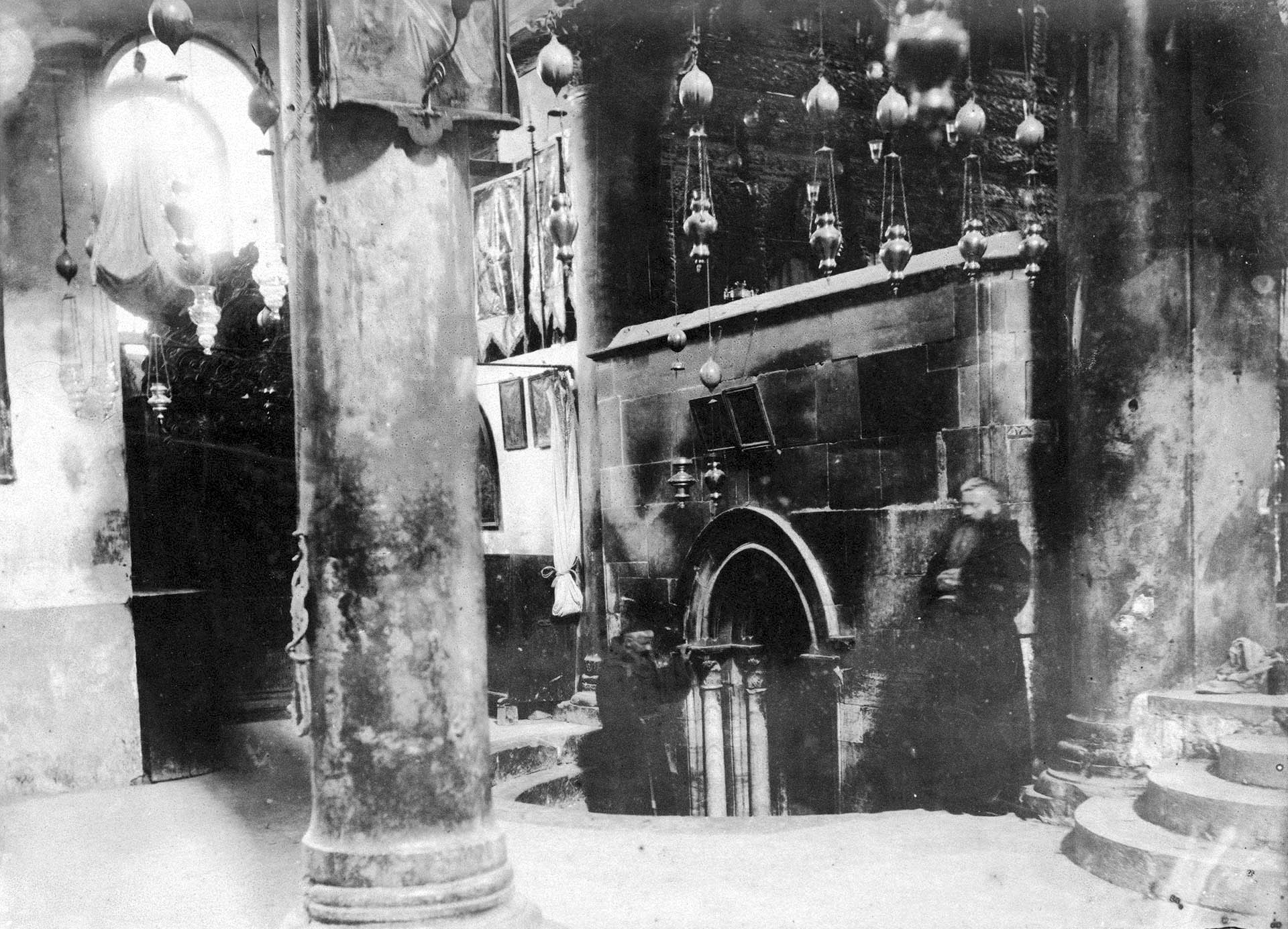 The Church of the Nativity in Bethlehem, photographed in the 1880s. Photo from the National Library of Israel.